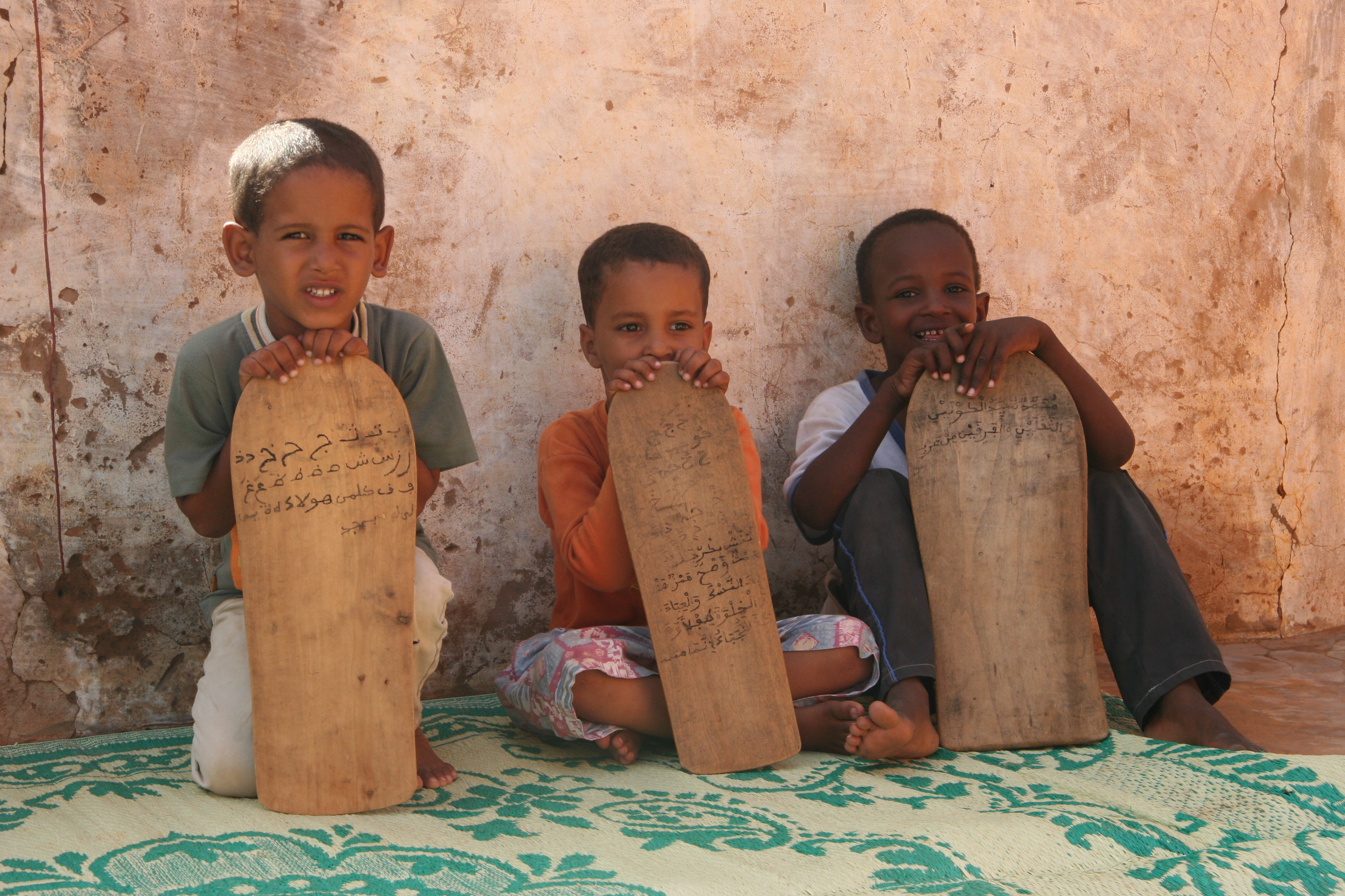 Young boys taking Qur'an lessons from wooden tablets in Mauritania, West Africa.